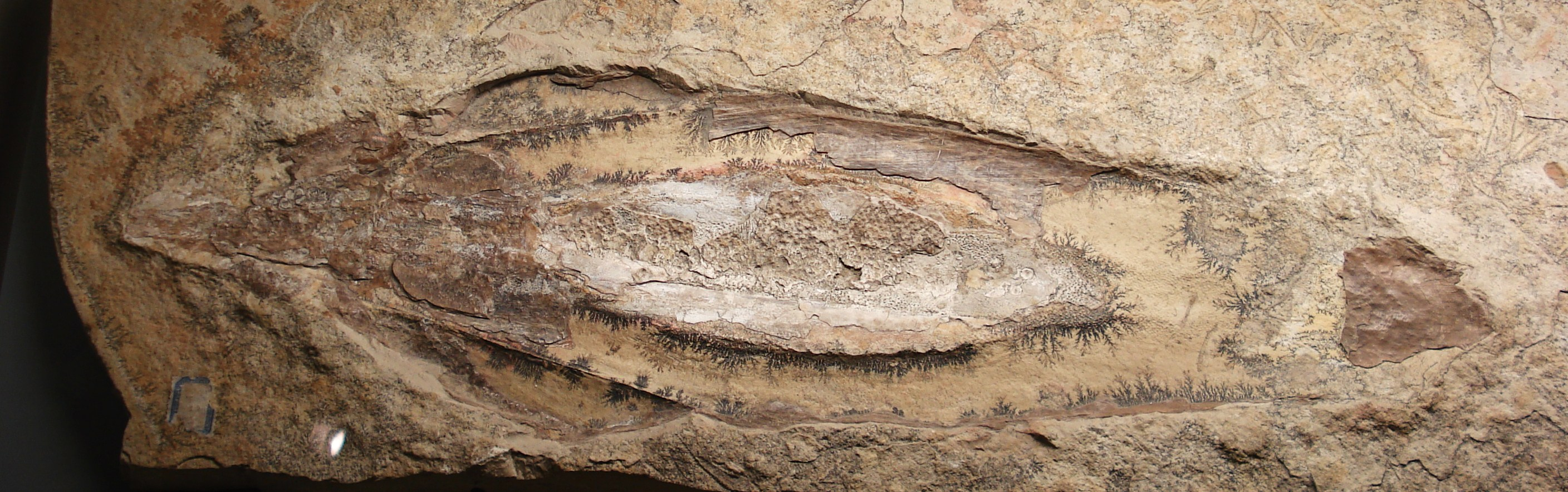 fossil of Trachyteuthis hastiformis